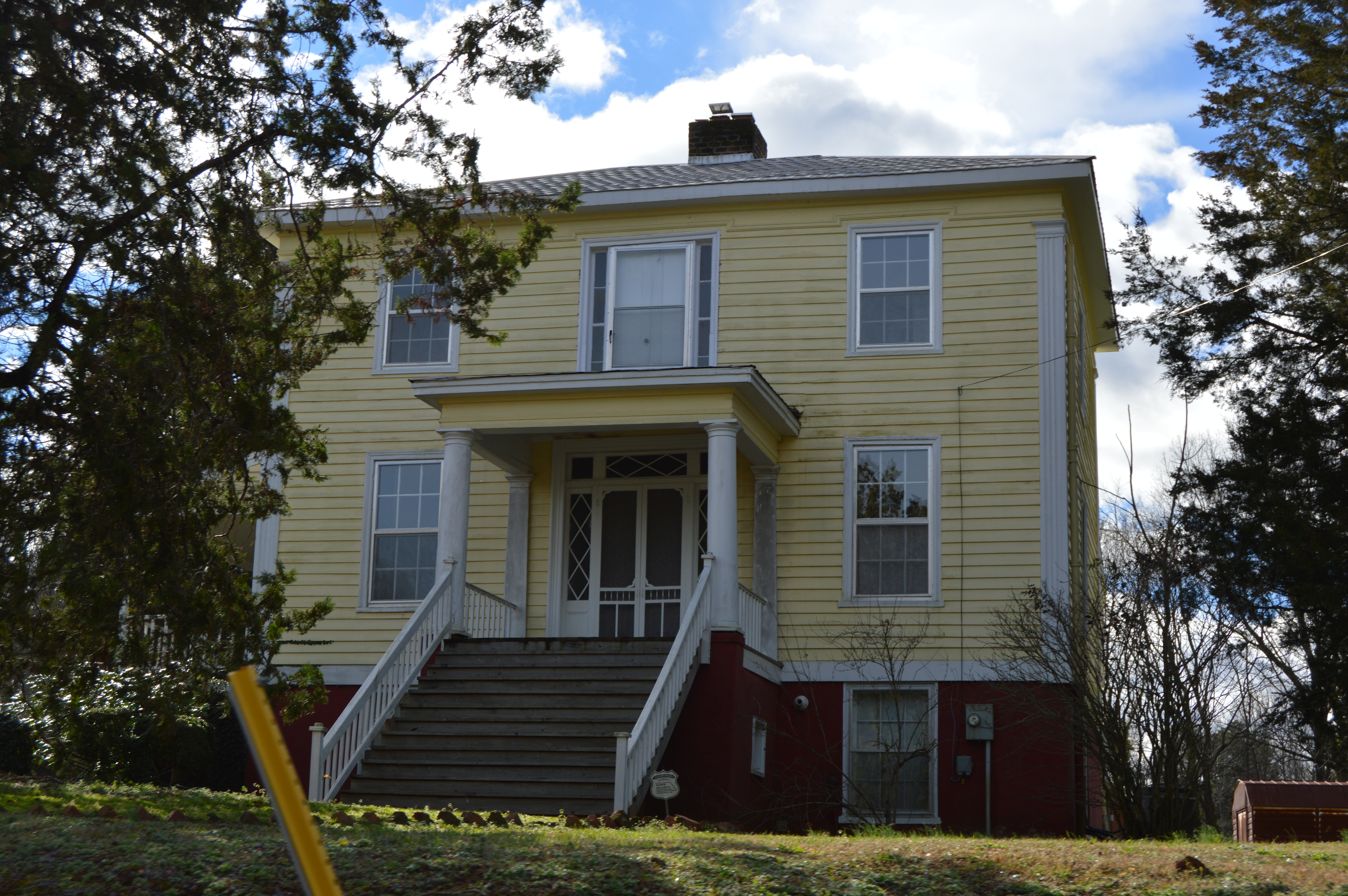 Front of the Sledge-Hayley House, located on Franklin Street at Hayley Street in Warrenton, North Carolina, United States. Built in 1855, it is listed on the National Register of Historic Places.